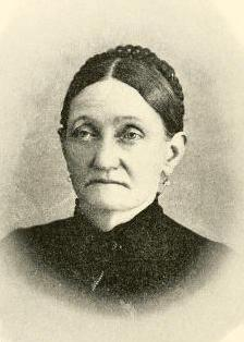 An older white woman with hair parted center and drawn back, wearing a high-collared black garment.